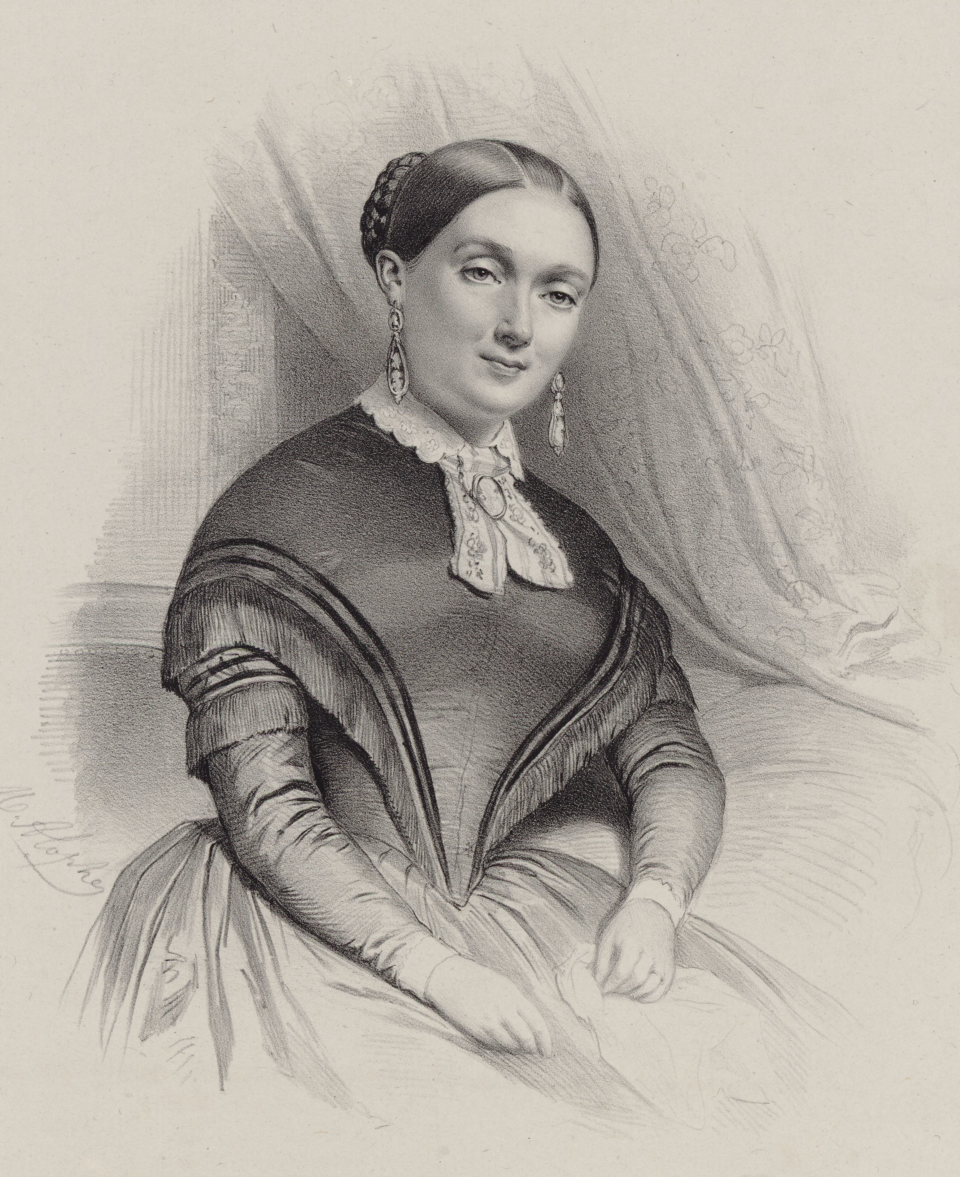 French composer and songwriter Loïsa Puget (1810-1889) by Marie-Alexandre Alophe (1812-1883).